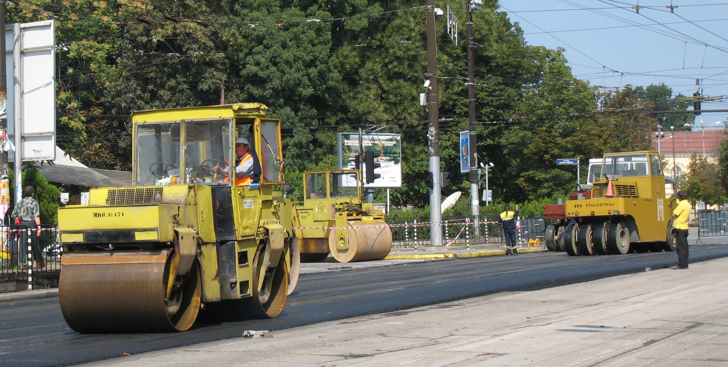 Road Rollers in the street of Sofia, Bulgaria